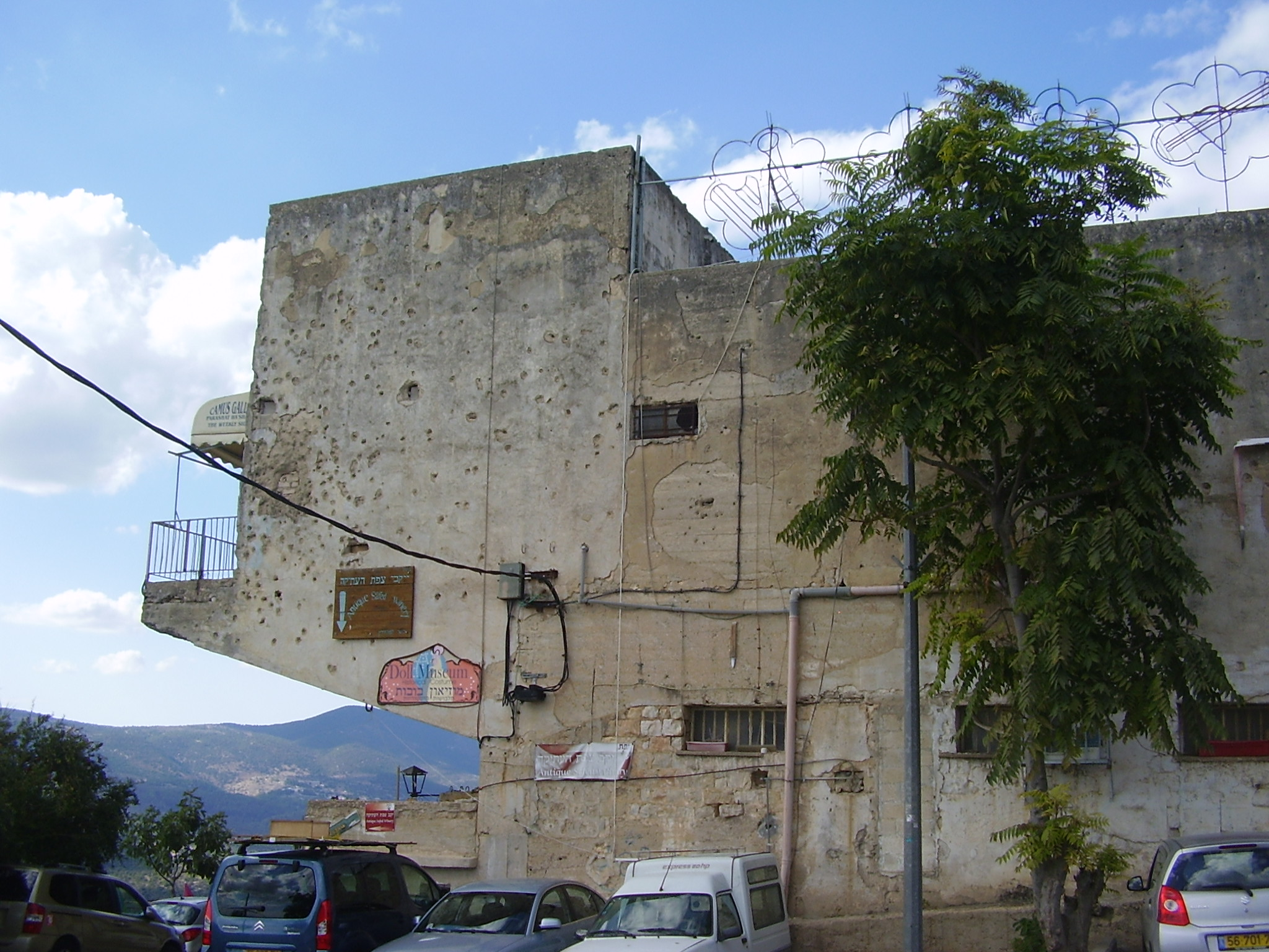 old commertial center in safed. was built after 1929 riots, on the border of the jewish quarter. the bullets holes are from 1948 independence war